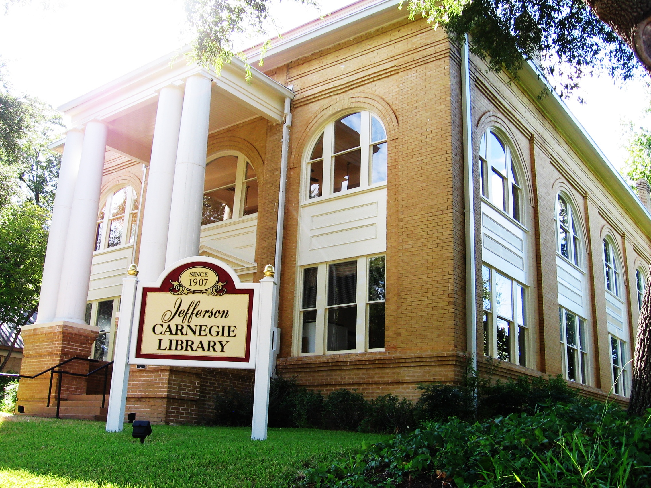 The Jefferson Carnegie Library located in Jefferson, TX.